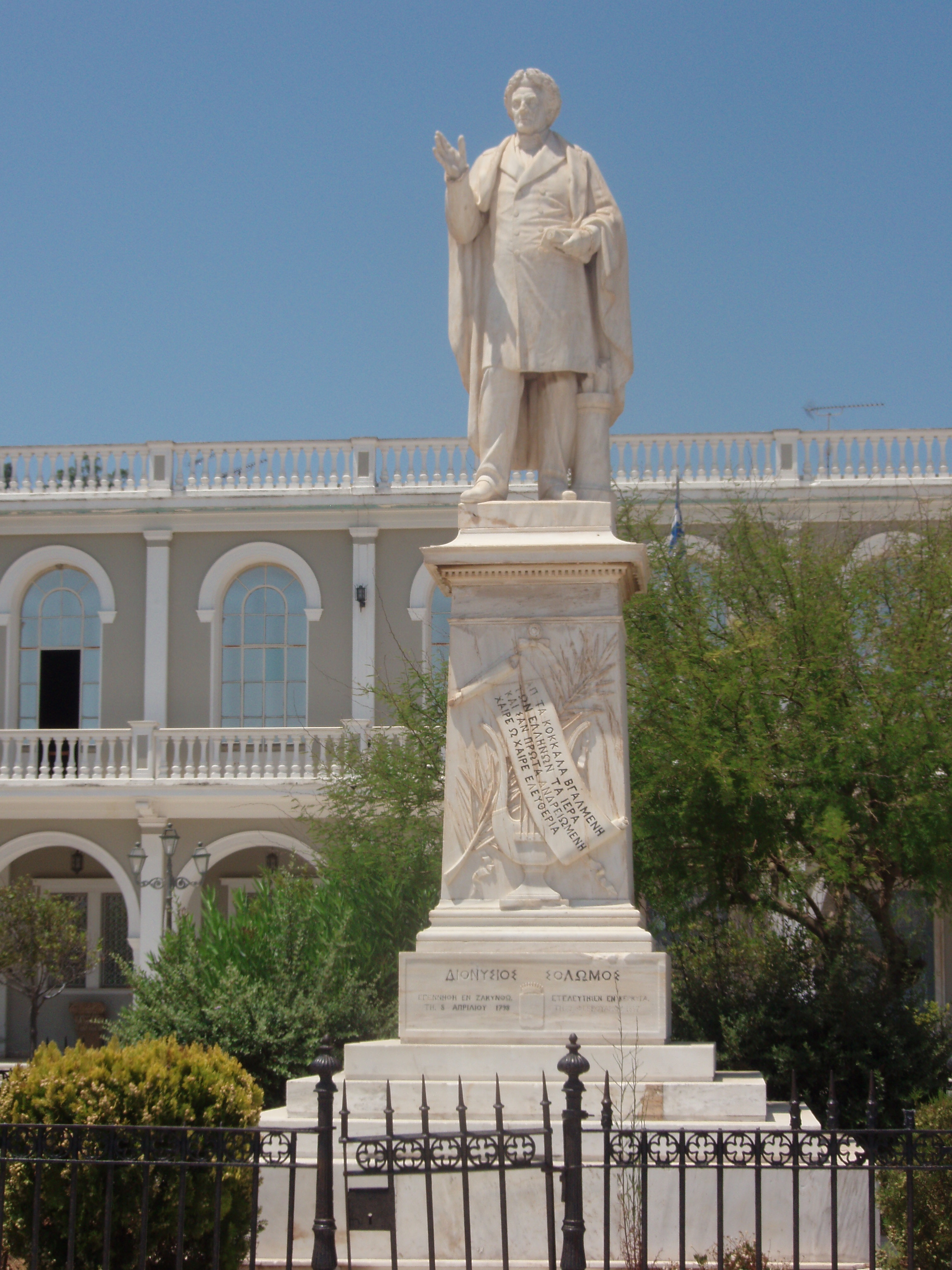 Statue of Greek poet Dionysios Solomos at Dionysios Solomos Square (Platia Dionysiou Solomou), Zakynthos (city), Greece. The sculpture is copy of a work by Georgios Vroutos (1843 – 1909).